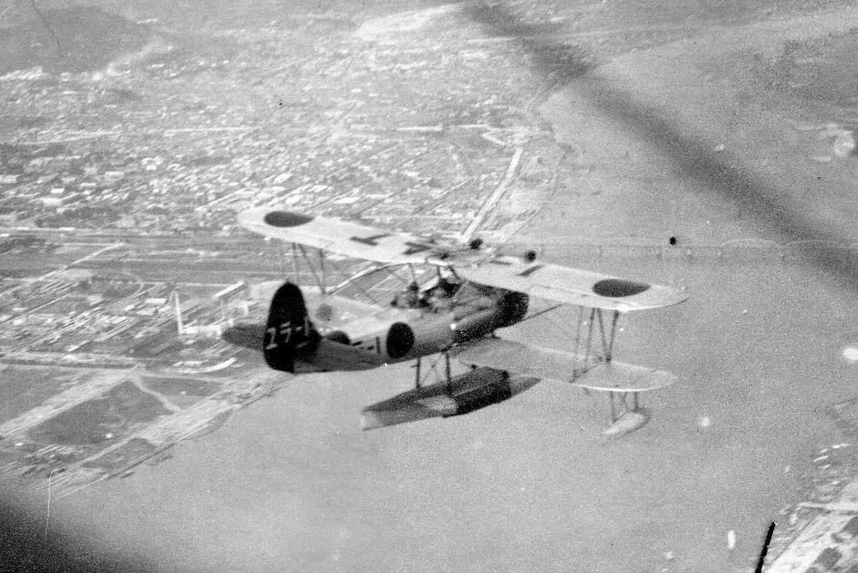 Nakajima E4N from light cruiser Yura